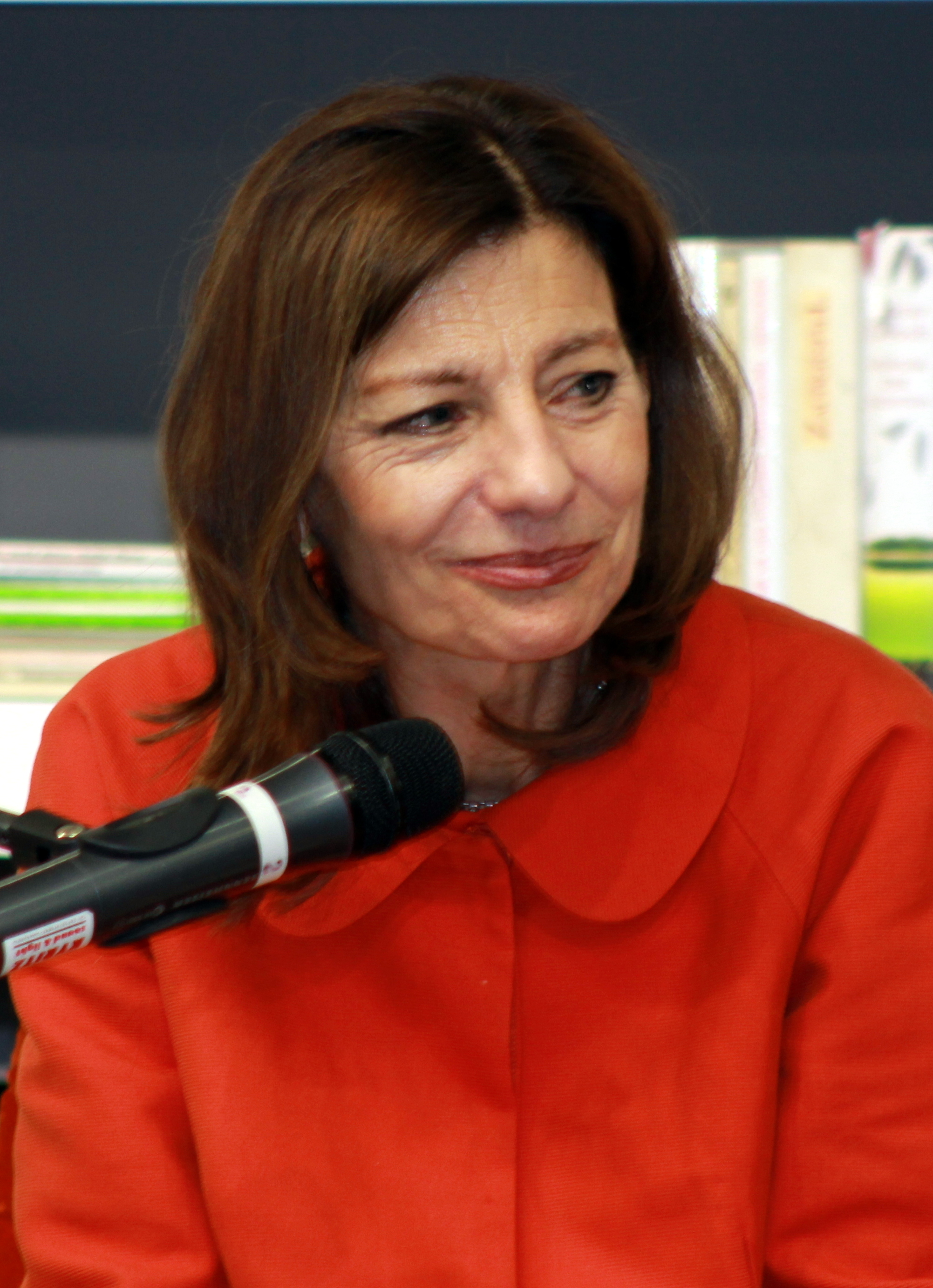 Ursula Krechel, Frankfurt Book Fair 2012